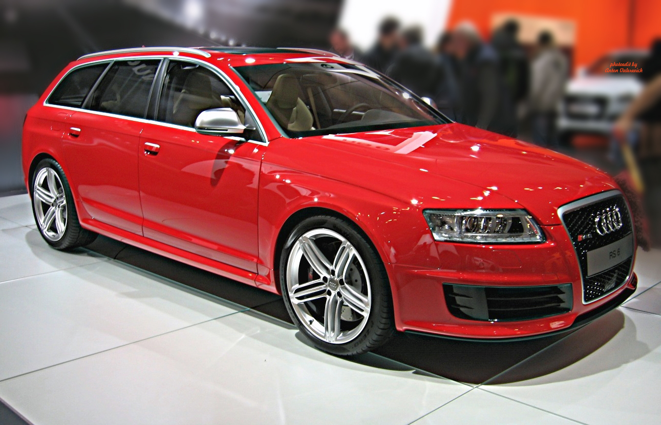 Subject:Audi RS6 Author:Luc106 Date:December 13th, 2007 Event:Motor Show Bologna 2007 Place/Country: Bologna, Italy I release all rights in the public domain.